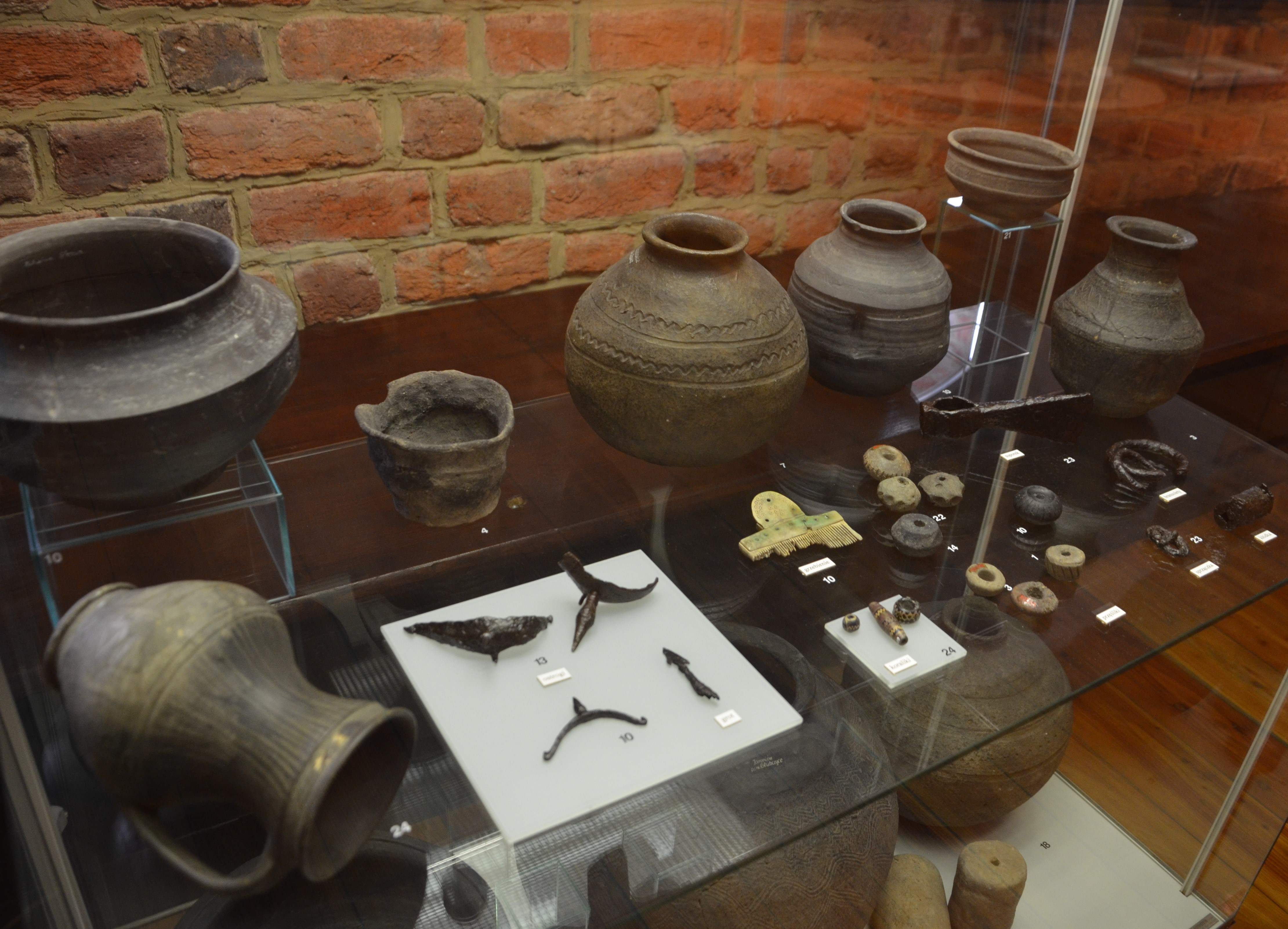 Burgunder Funde der Luboszyce-Kultur in Schlesien, Brandenburg, Hinterpommern und der Lausitz Horizont in spätrömischer Zeit (3. bis 5. Jahrhundert n. Chr.)